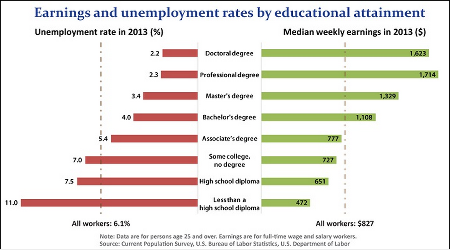 Chart of unemployment and salary based on education attainment Data are for persons age 25 and over. Earnings are for full-time wage and salary workers